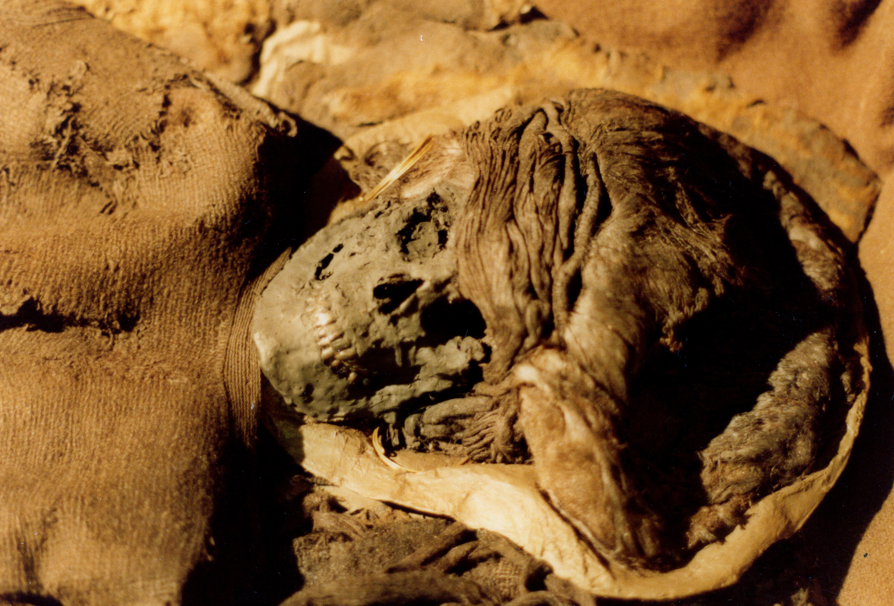 The Skrydstrup Woman, found in a tumulus in Denmark. She was discovered in 1935 and dated to 1300 BCE